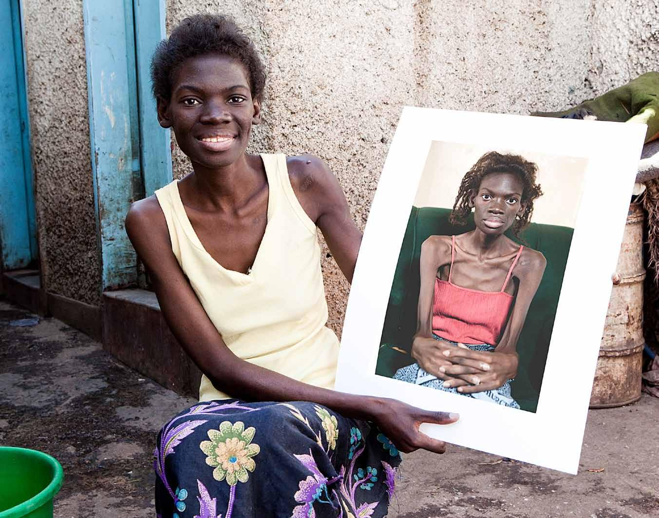 Movie poster from the film, The Lazarus Effect from